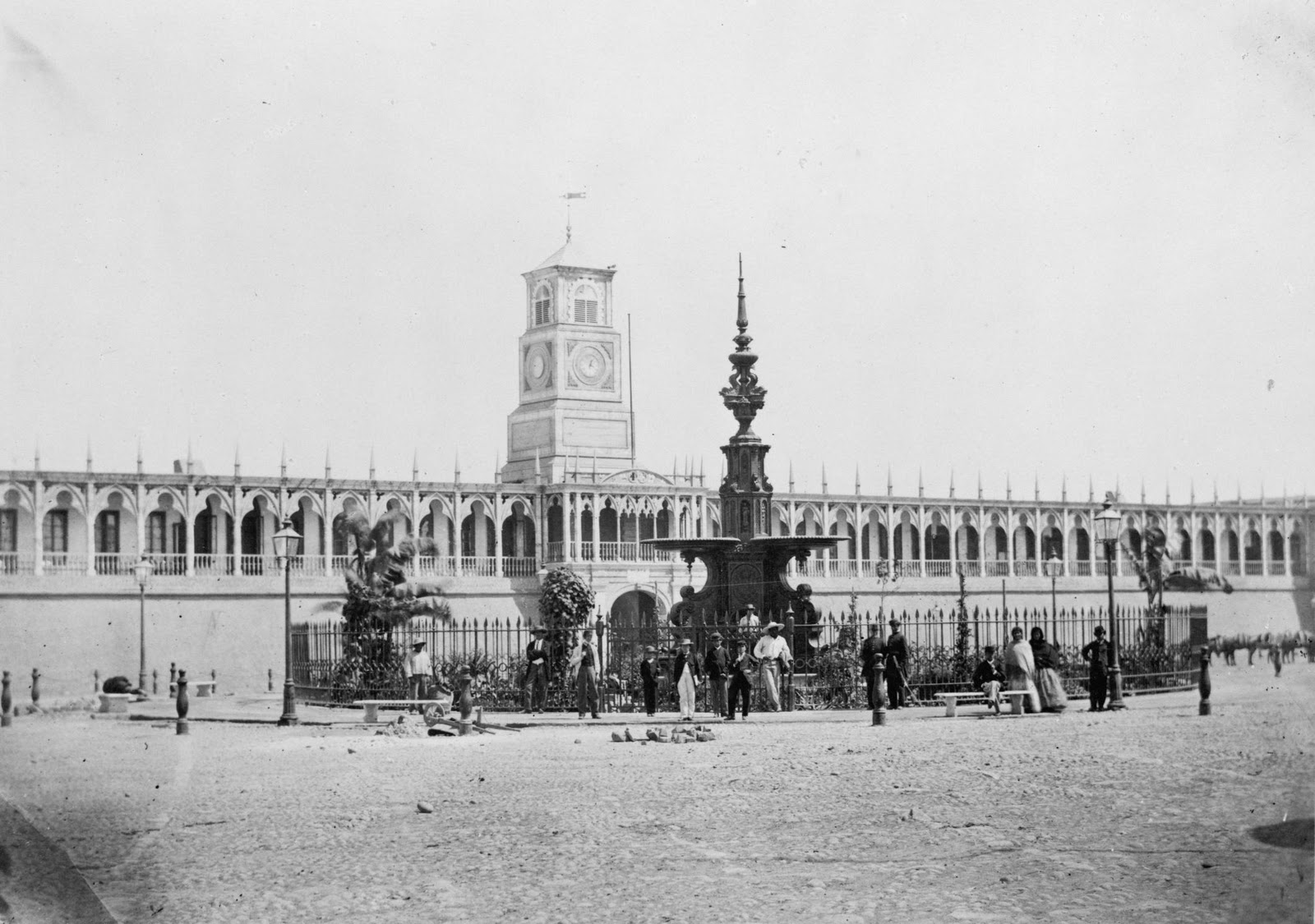 Customs of Callao in Perú